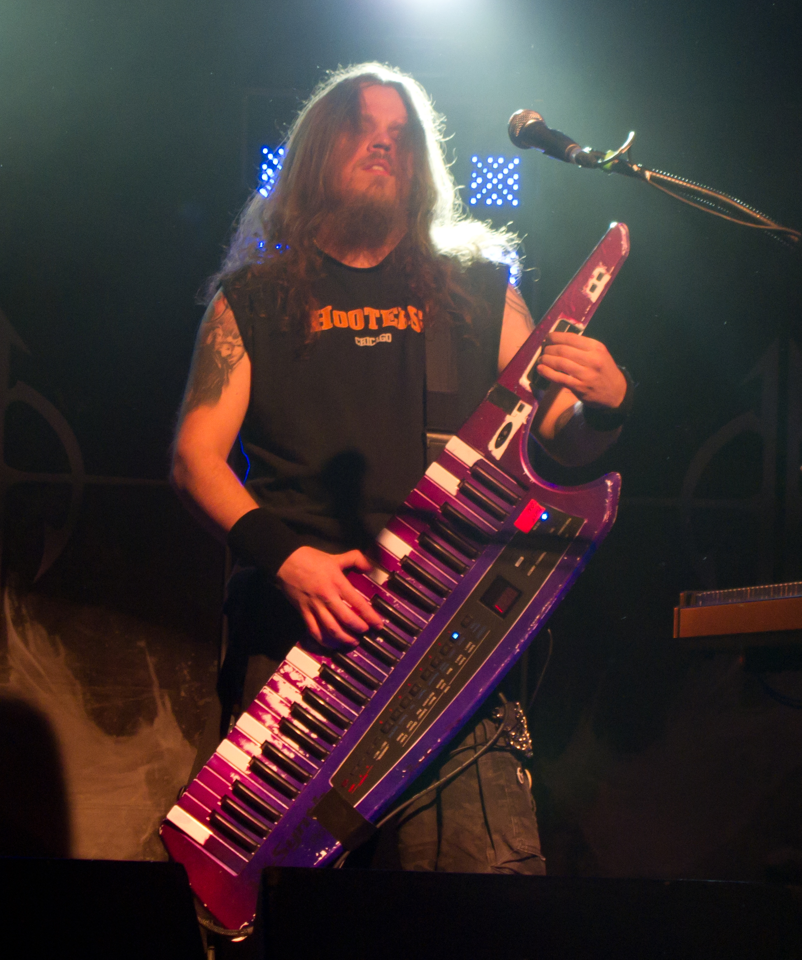 Henrik Klingenberg (Sonata Arctica) in concert.